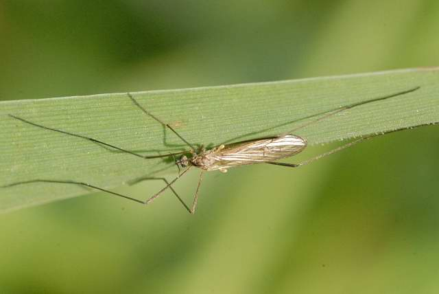 Symplecta pilipes from Commanster, Belgian High Ardennes .